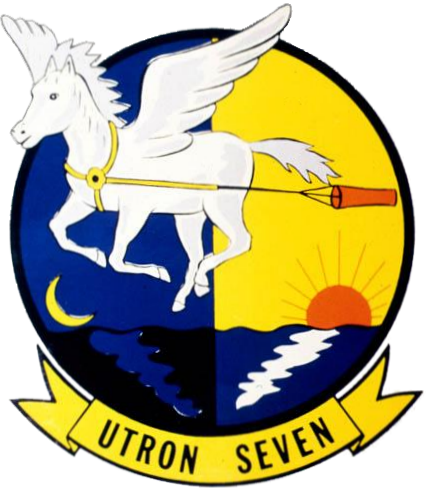 Patch of the U.S. Navy Utility Squadron VU-7 Redtails (1942-1980).